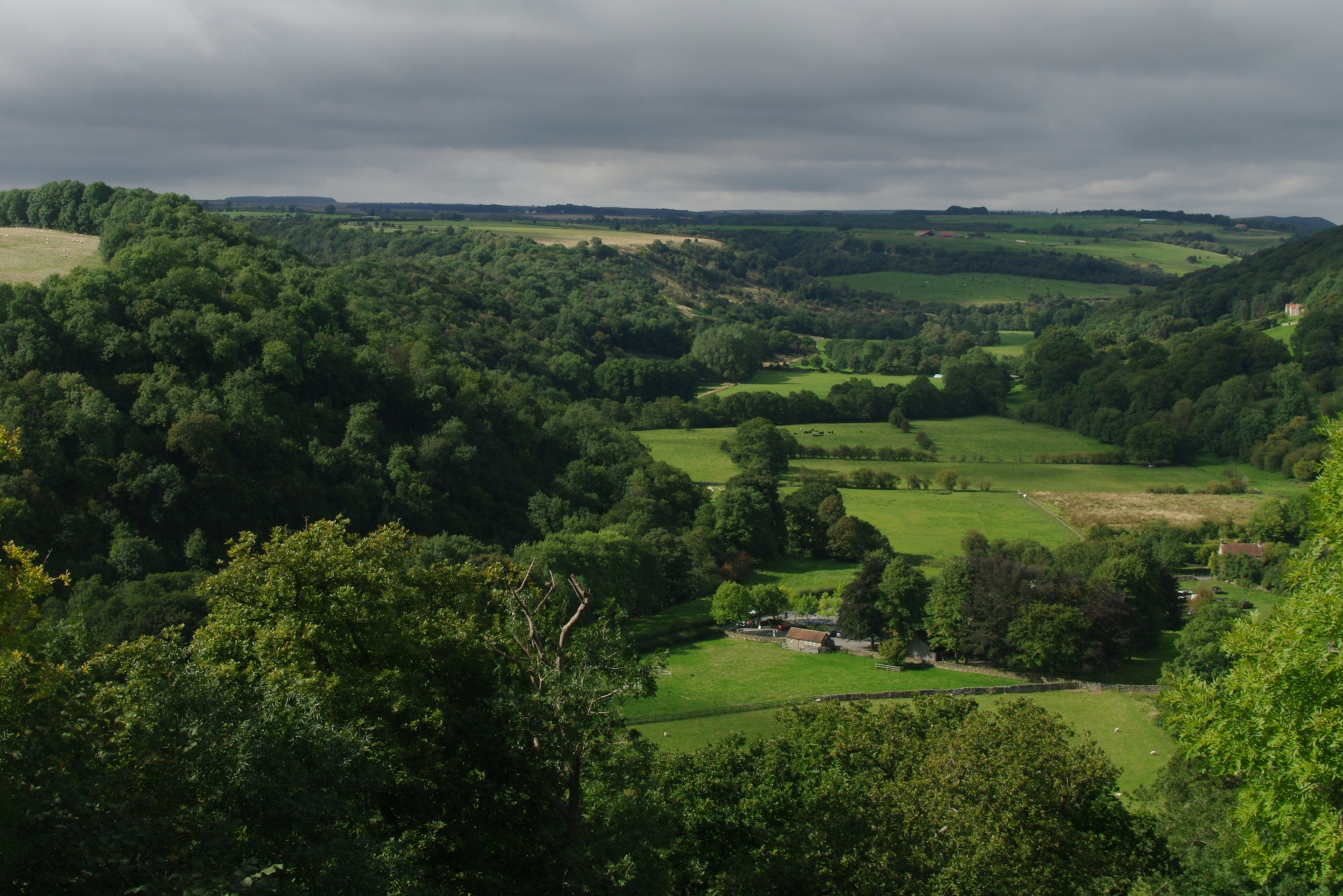 Farmland close to Riveaulx Abbey, North York Moors